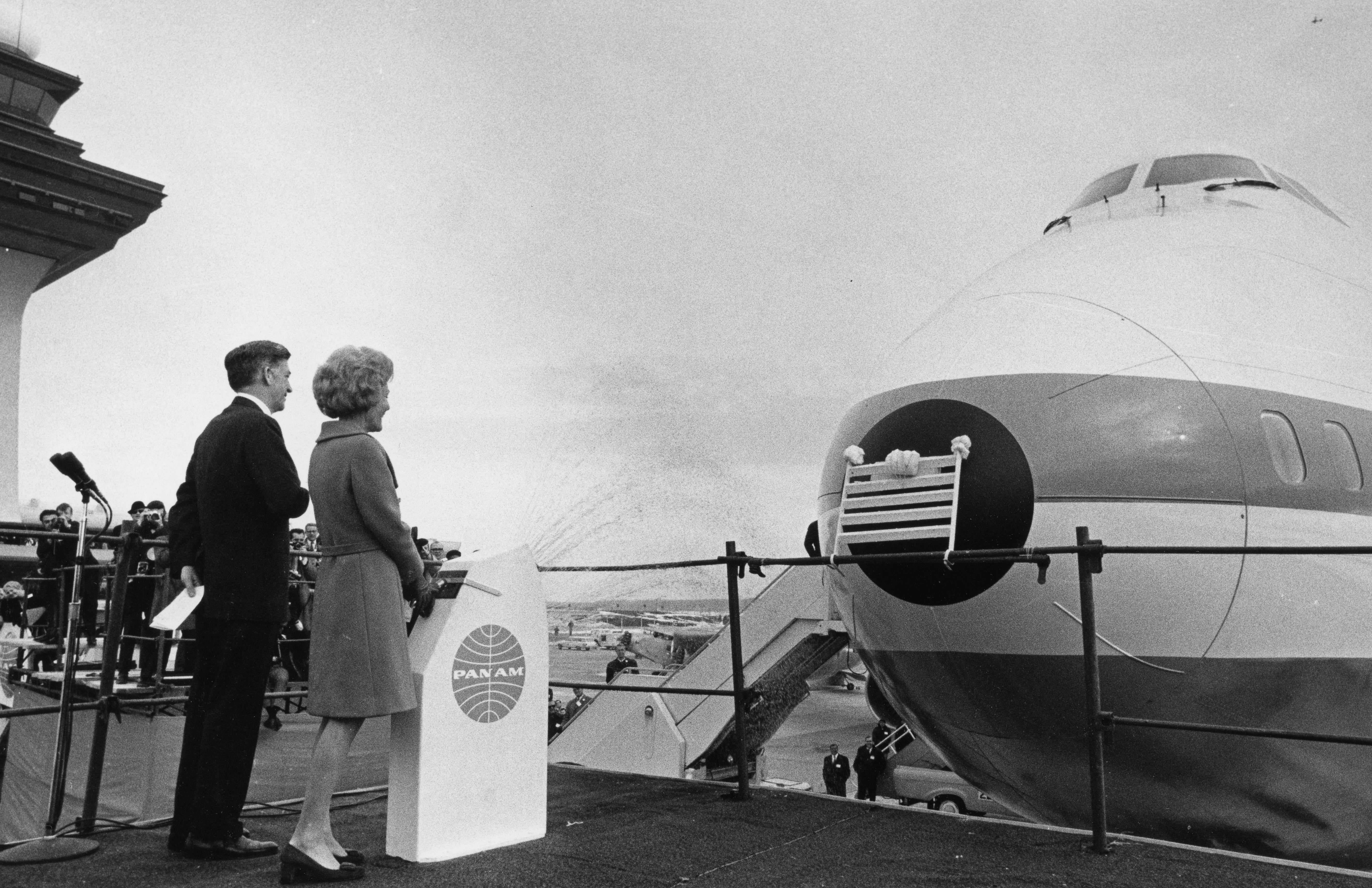 First Lady Pat Nixon christens the first Boeing 747, Dulles Airport, January 1970. WHPO 2749-18